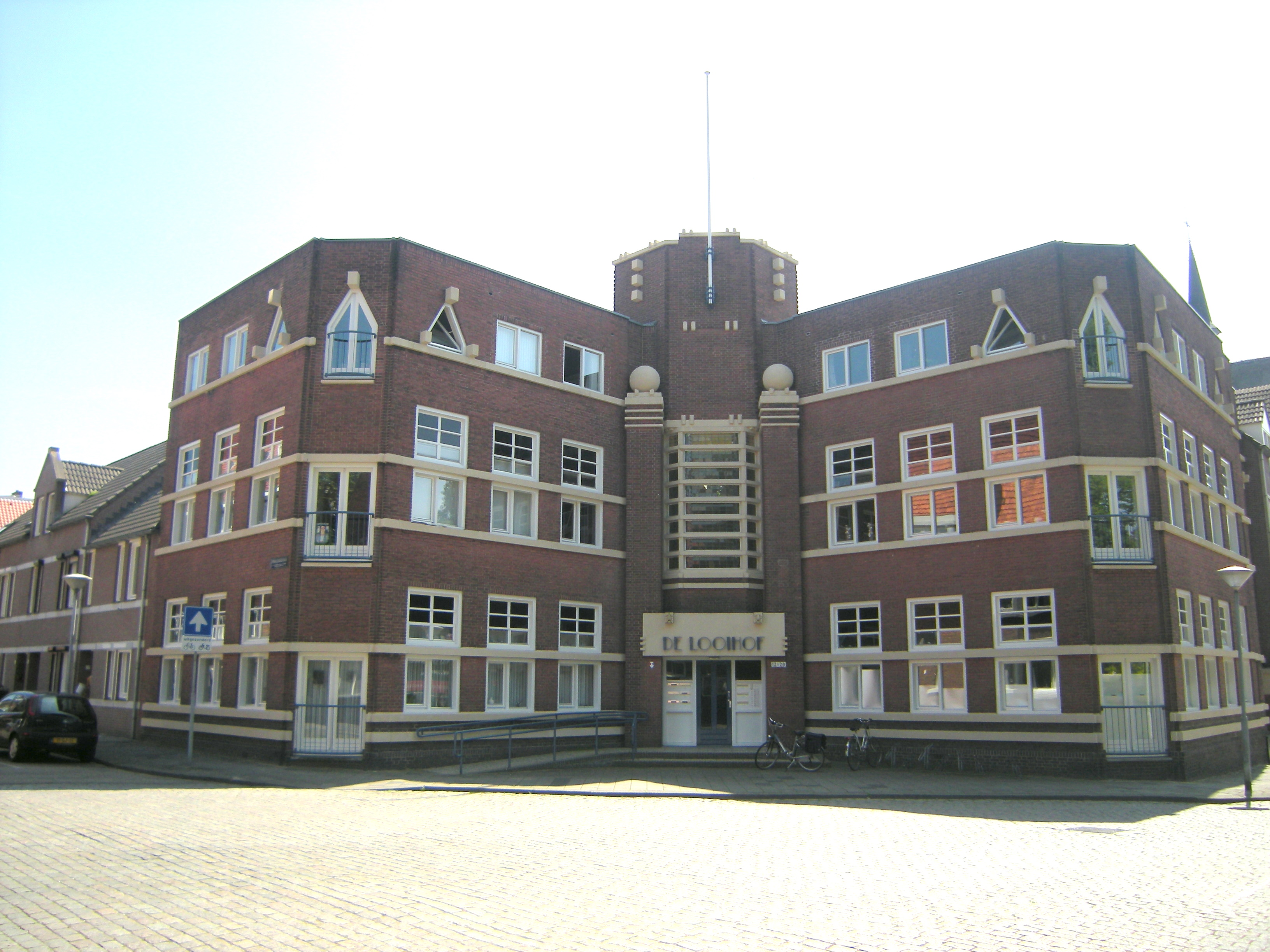 Loohof Venlo